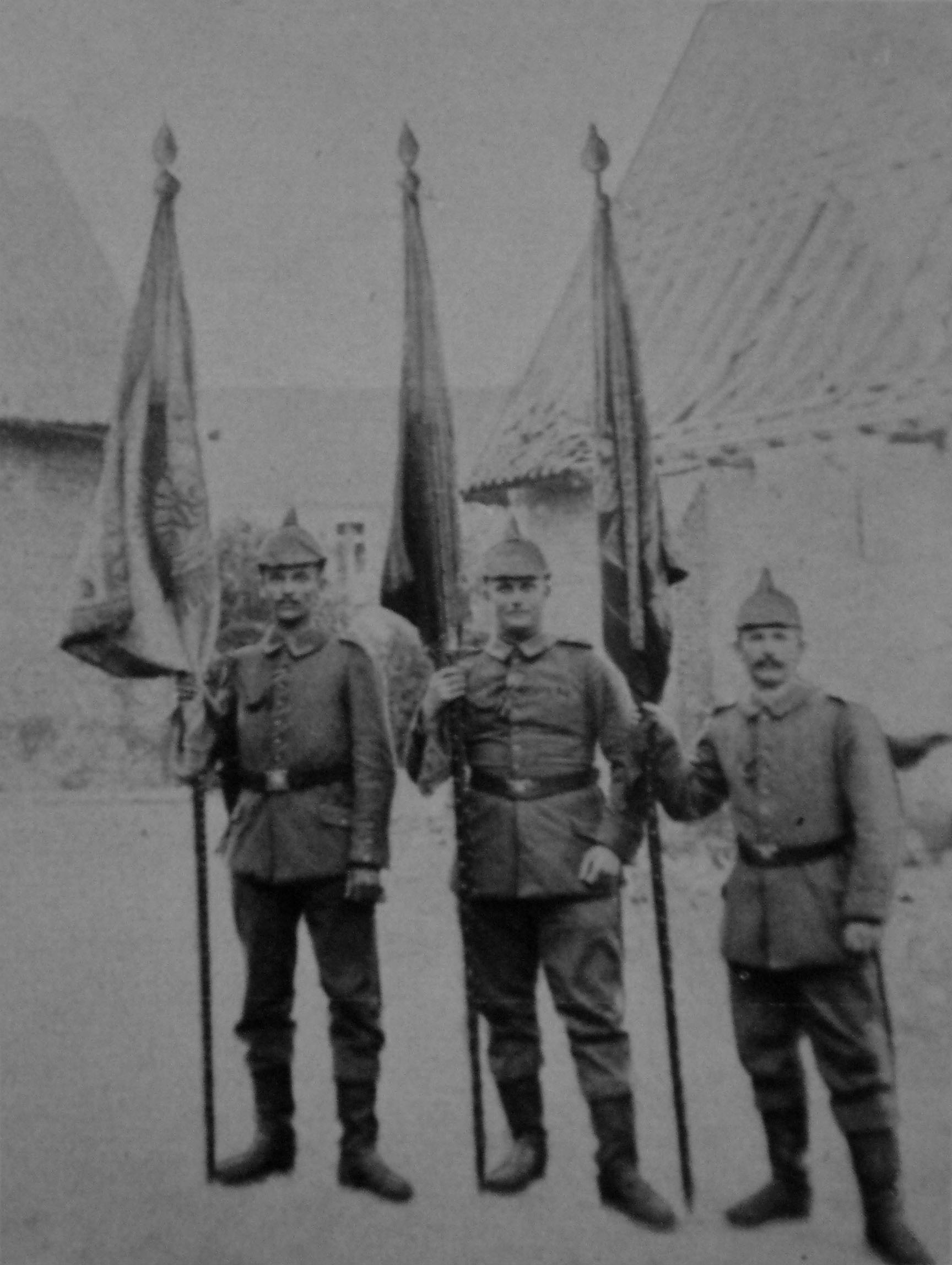 Flags from (5th Saxon) Infantry Regiment Nr. "Kronprinz" Nr. 104 (1st to 3rd Bataillon) during First World War (about 1914-1916)